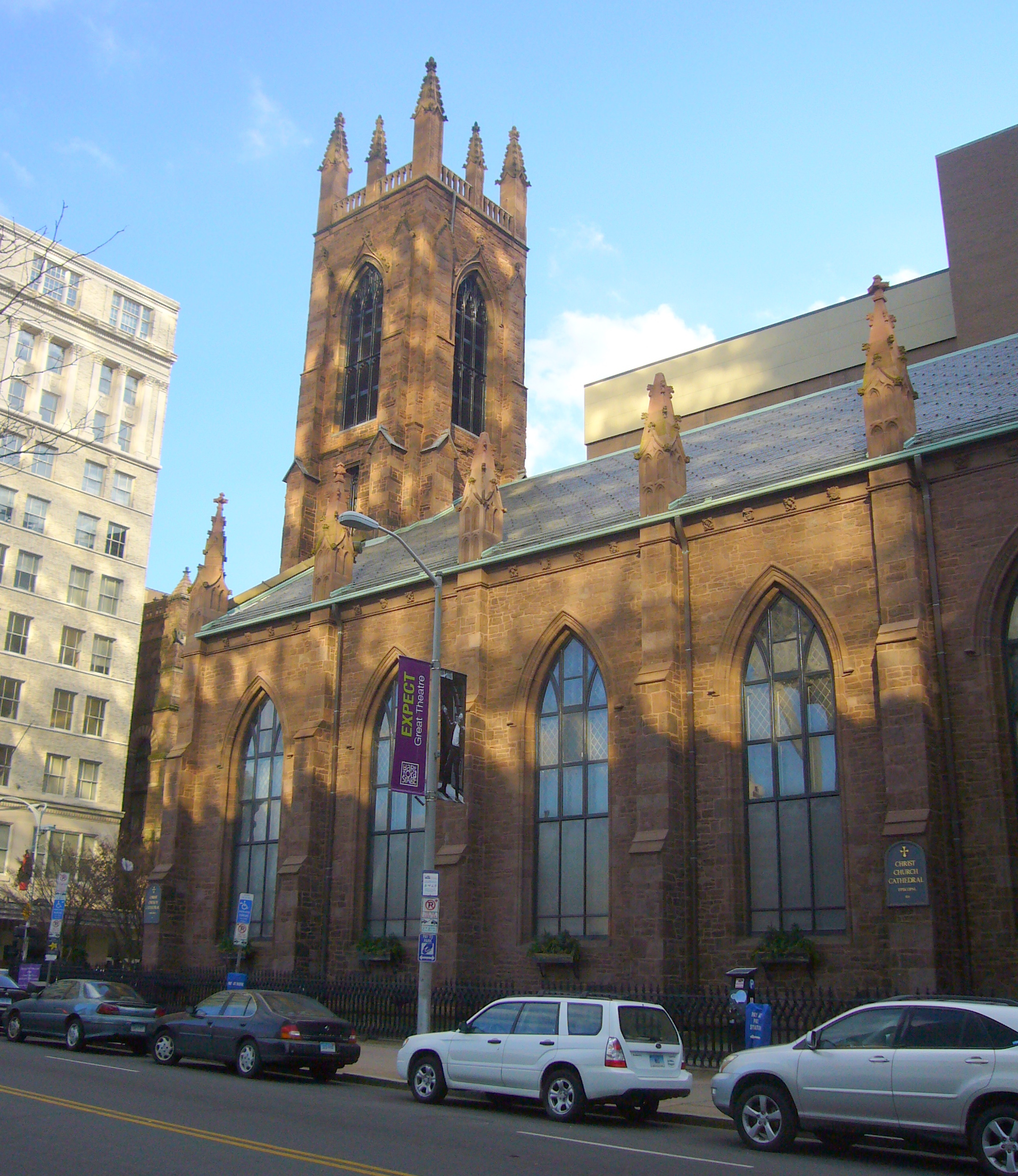 Christ Church Cathedral (exterior), Hartford, CT, USA.